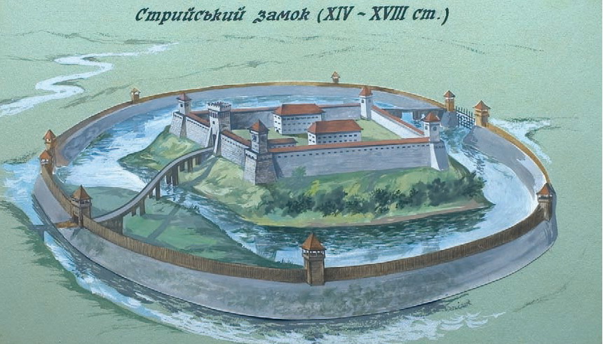 Stryi castle XIV - XVIII centuries (reconstruction)